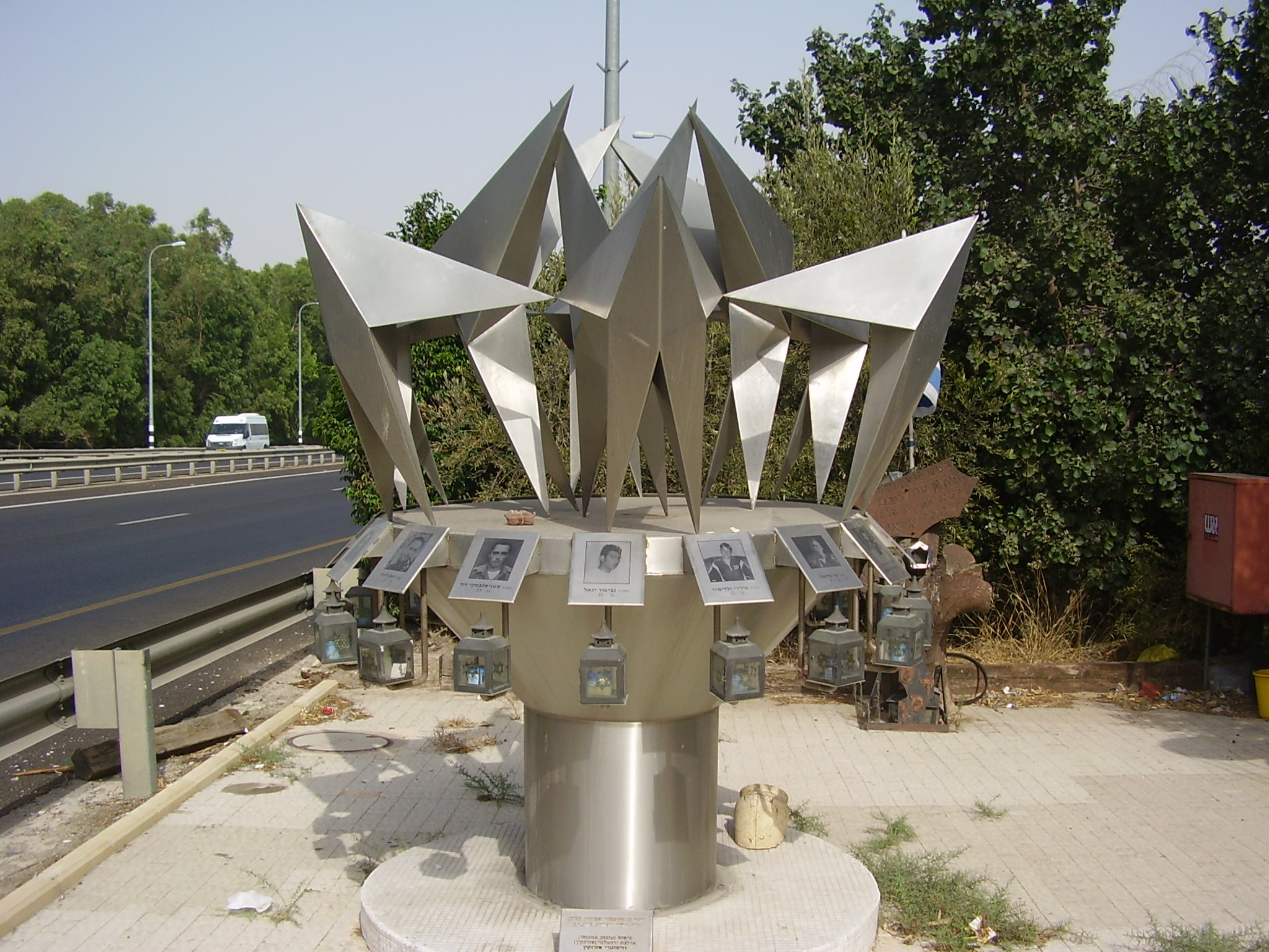 monument for hhe victims of the terror attack in meggido junction - 5/6/2002.